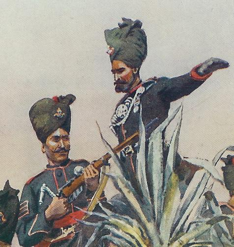 Watercolour by Major A. C. Lovett of men of The 125th Napier's Rifles (British Indian Army) - detail